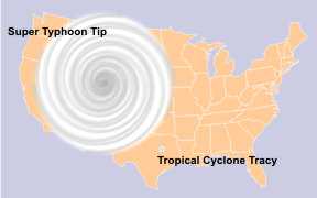 Illustrating the extreme sizes of tropical cyclones.